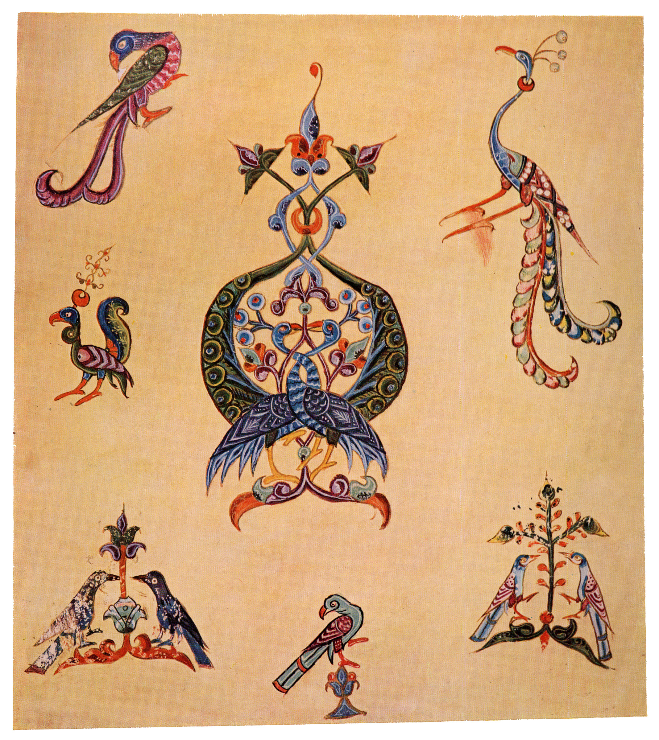 Sermon collection (1204) margin ornaments of an Armenian manuscript